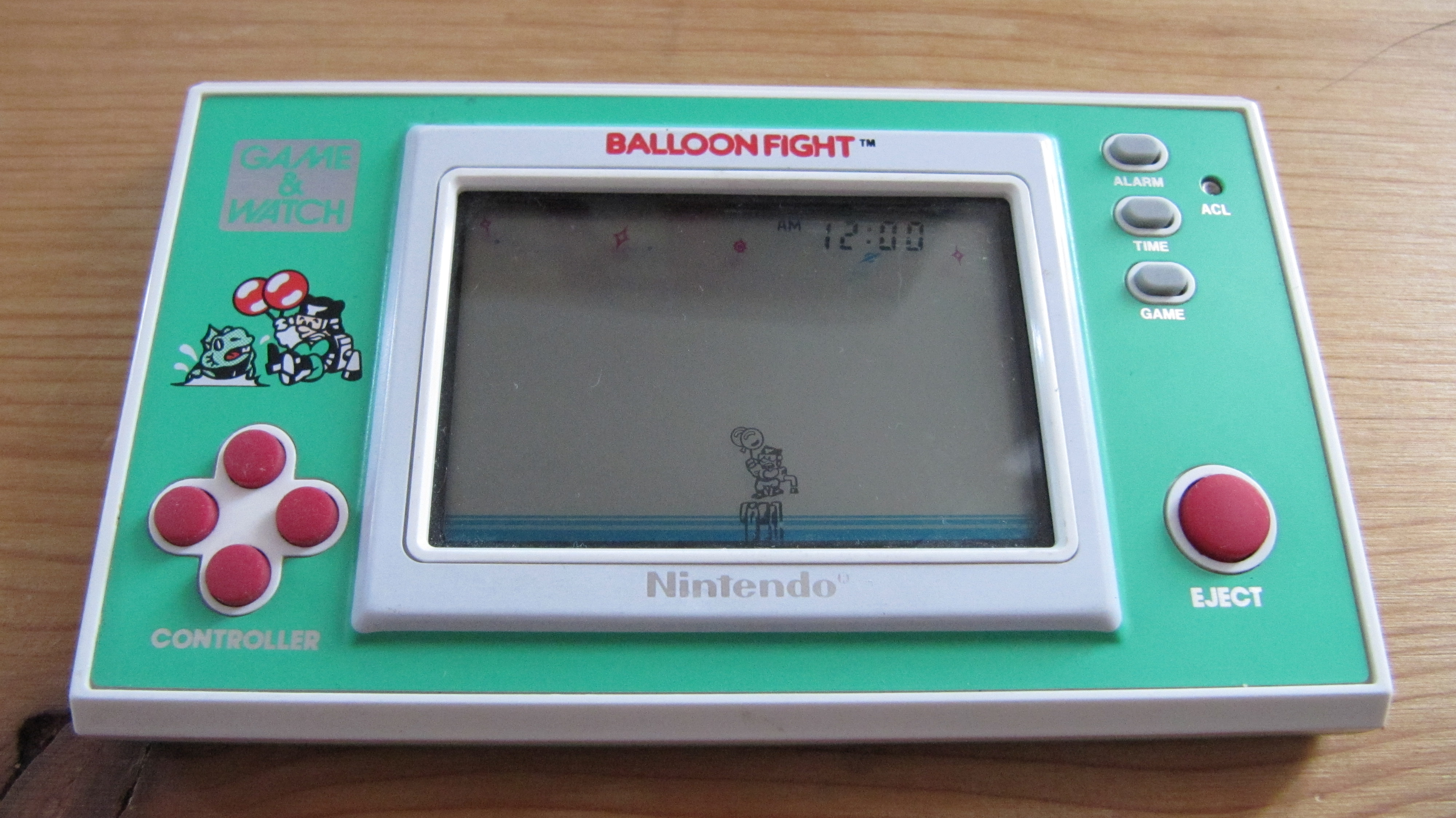 Balloon Fight